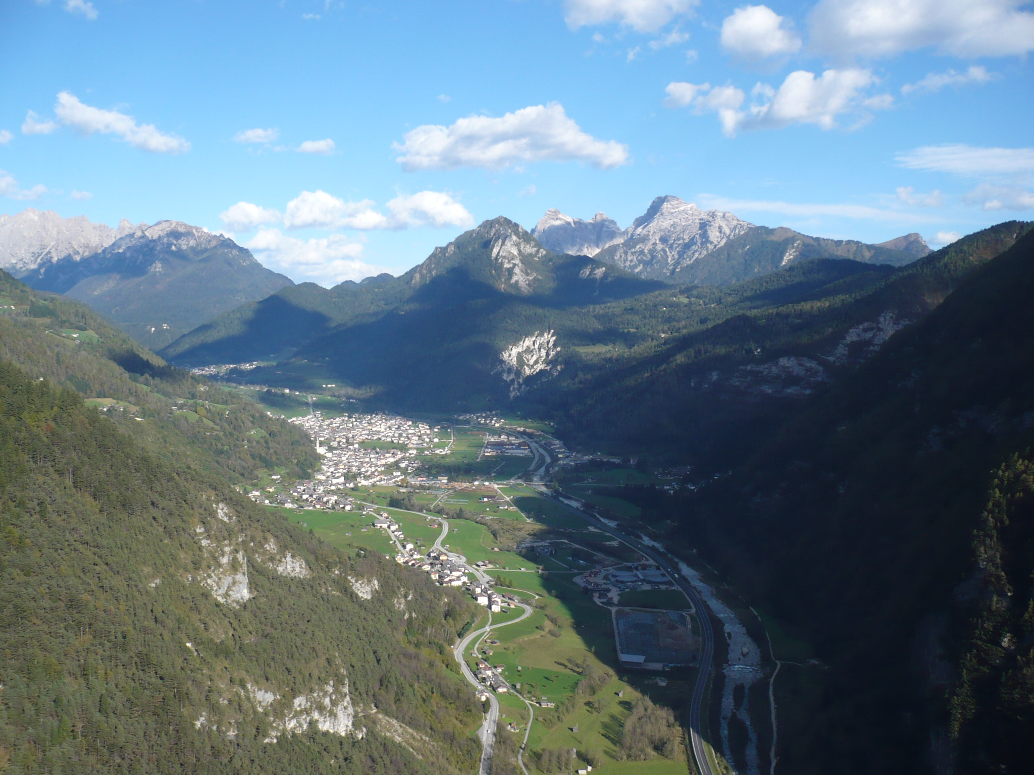 Primiero valley (province of Trento, Italy) seen by south, by saint Sylvester church. You can see the towns of Mezzano, Imèr, and Masi d'Imèr